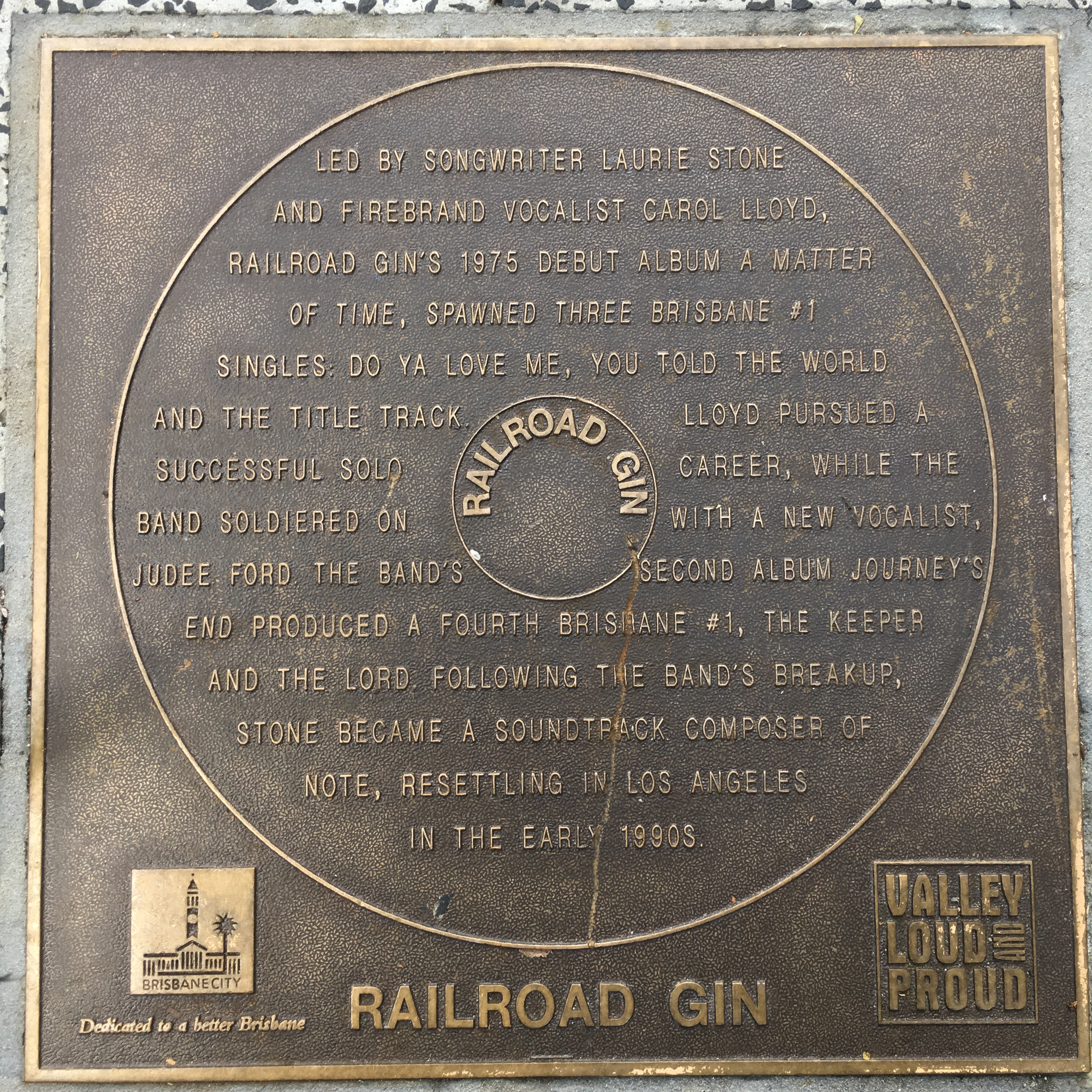 Plaque recognising band Railroad Gin located on Brisbane's Walk of Fame in Brunswick St Mall, Fortitude Valley. The plaque was laid in 2008. Text reads: Led by songwriter Laurie Stone and firebrand vocalist Carol Lloyd, Railroad Gin's 1975 debut album "A Matter of Time", spawned three Brisbane #1 singles: Do Ya Love Me, You Told the World and the title track. Lloyd pursued a successful solo career, while the band soldiered on with a new vocalist, Judee Ford. The band's second album "Journey's End" produced a fourth Brisbane #1, The Keeper and the Lord. Following the band's breakup, Stone became a soundtrack composer of note, resettling in Los Angeles in the early 1990s. (Brisbane City Council logo) Railroad Gin (Valley Loud and Proud logo)